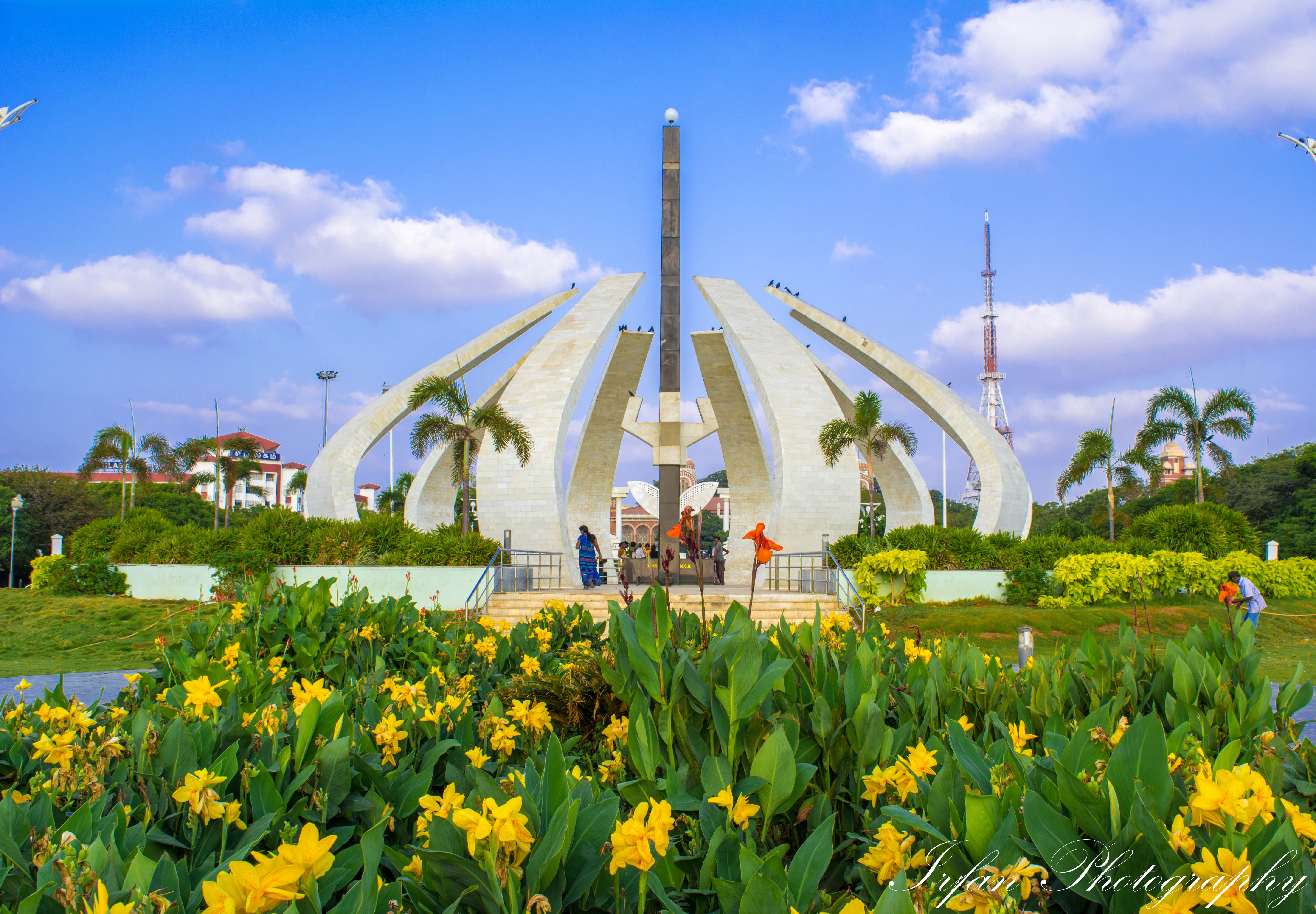 MGR Memorial at Marina beach, Chennai clicked by Irfan Ahmed Photography